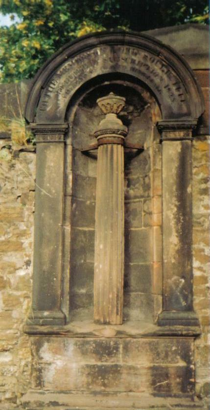 The 'new' Soulis Cross set into the wall at the High Church in Kilmarnock, Ayrshire. The 'old' cross is on display at the Dick Institute.